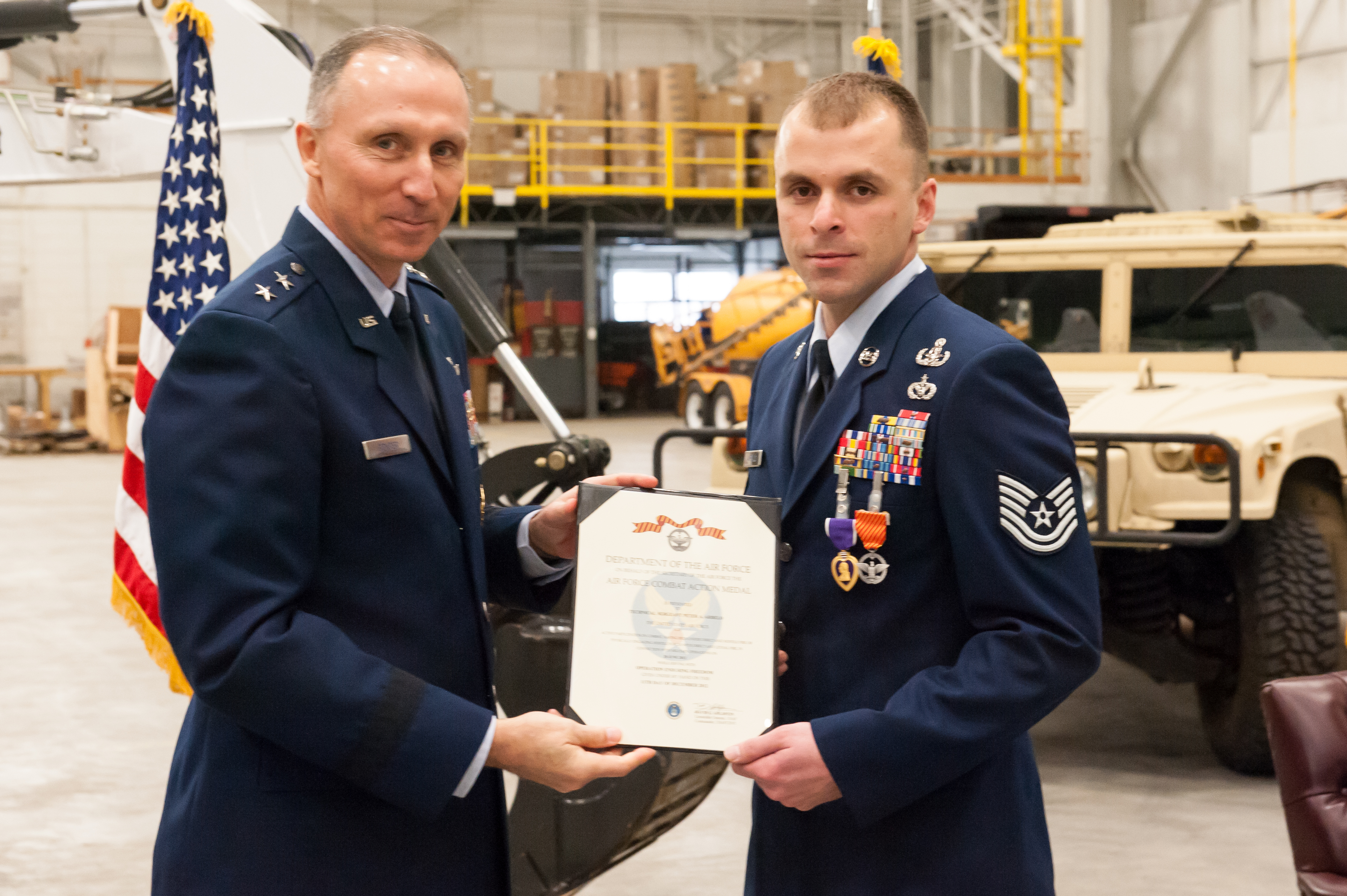 Maj. Gen. Bill Bender, U.S. Air Force Expeditionary Center commander, presents Tech. Sgt. Peter Arbelo, 87th Civil Engineer Squadron Explosive Ordnance Disposal training NCO, with a Purple Heart and an Air Force Combat Action Medal March 4, 2013, at Joint Base McGuire-Dix-Lakehurst, N.J. Arbello fell victim to an improvised explosive device attack in the Ghanzi province of Afghanistan June 28, 2012. (U.S. Air Force photo by Russ Meseroll/Released)